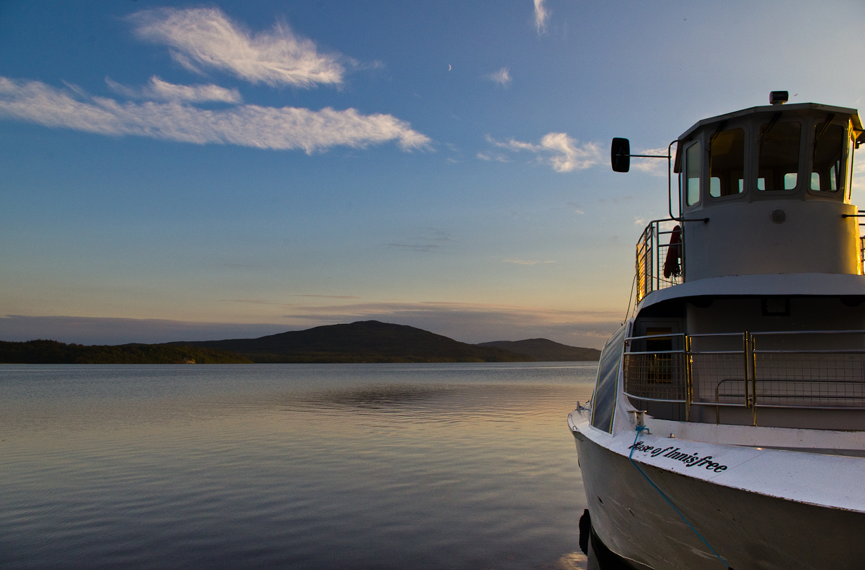 tour boat at Parks Castle on the north east shore of Lough Gill in Co Leitrim.